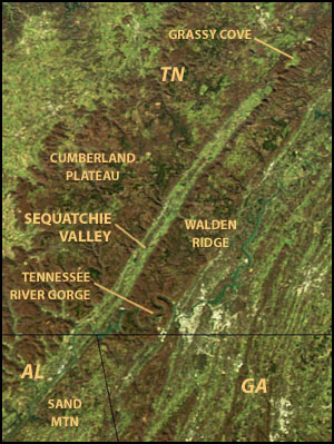 Annotated satellite image of the Sequatchie Valley region of Tennessee. MODIS sensor on NASA's Aqua satellite.